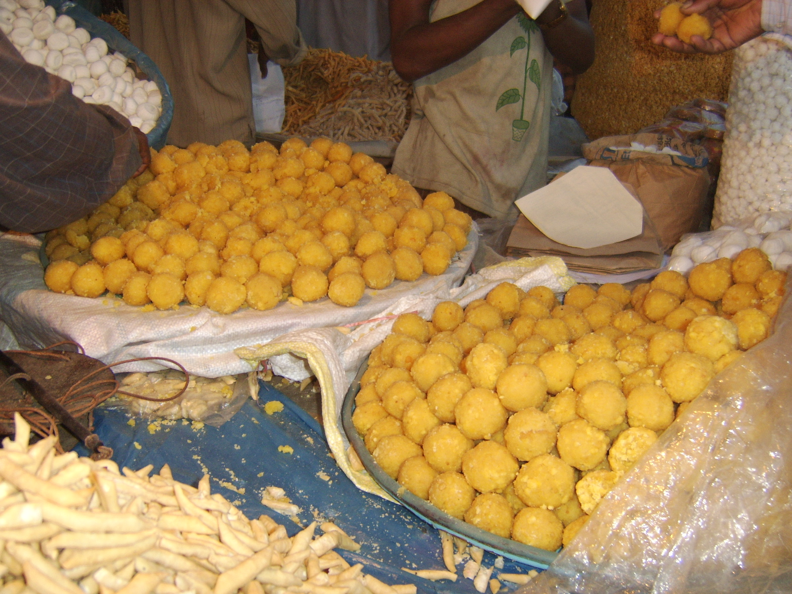 Sweetmeat of Bangladesh.